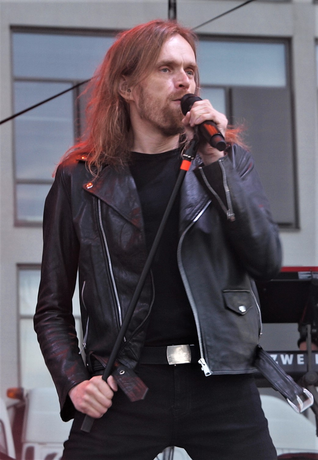 A cropped version of File:Anssi Kela at Satamahulinat.jpg